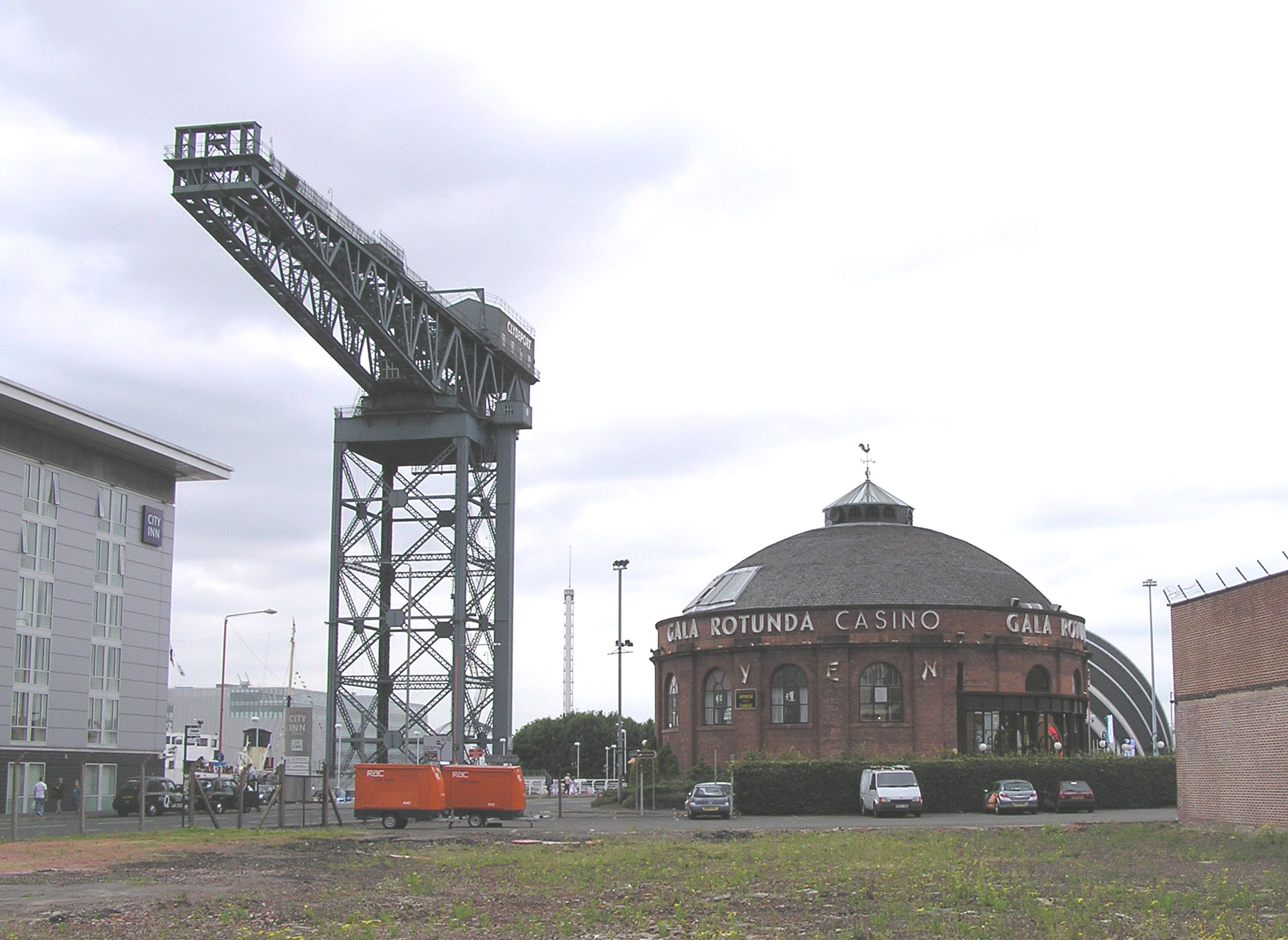 The Finnieston Crane and the North Rotunda on the north bank of the River Clyde in Glasgow, Scotland. The tower of the Glasgow Science Centre is visible between the two in the distance, and on the extreme left is the modern new home of BBC Scotland.